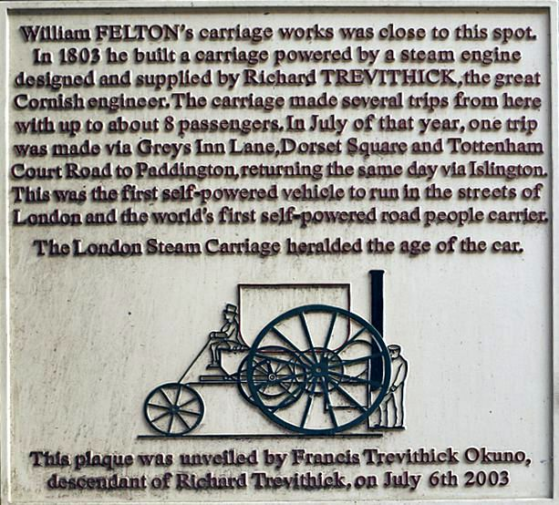 Plaque in London commemorating William Felton at 54 Leather Lane, London EC1N